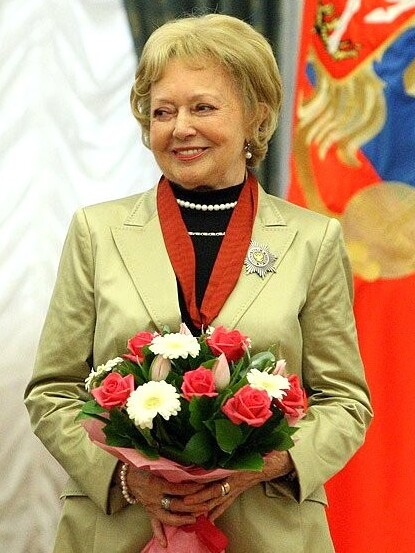 Dmitry Medvedev and Ludmila Kasatkina. Moscow, Kremlin. 9 sept 2010.